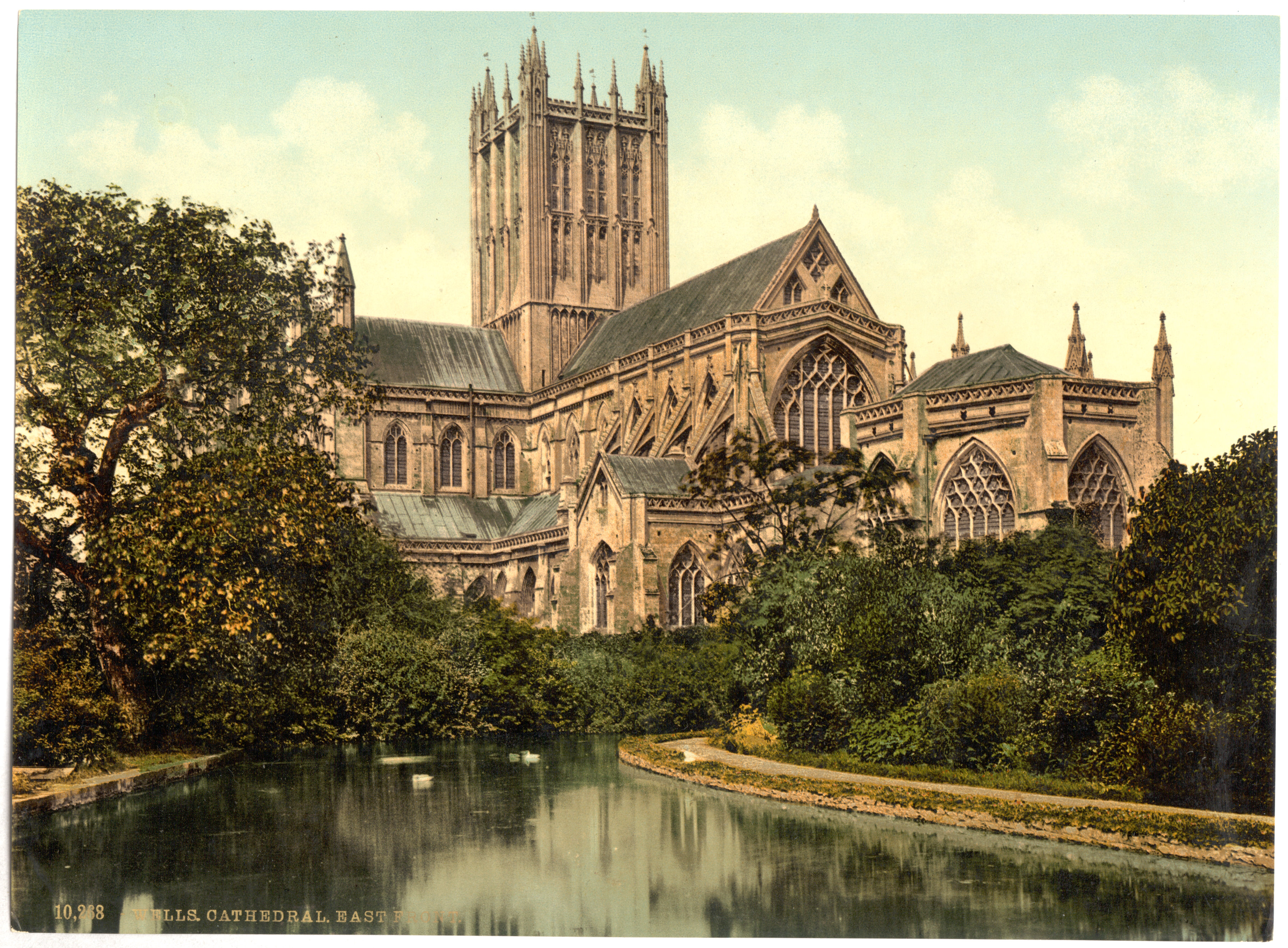 Photochrom of Wells Cathedral.